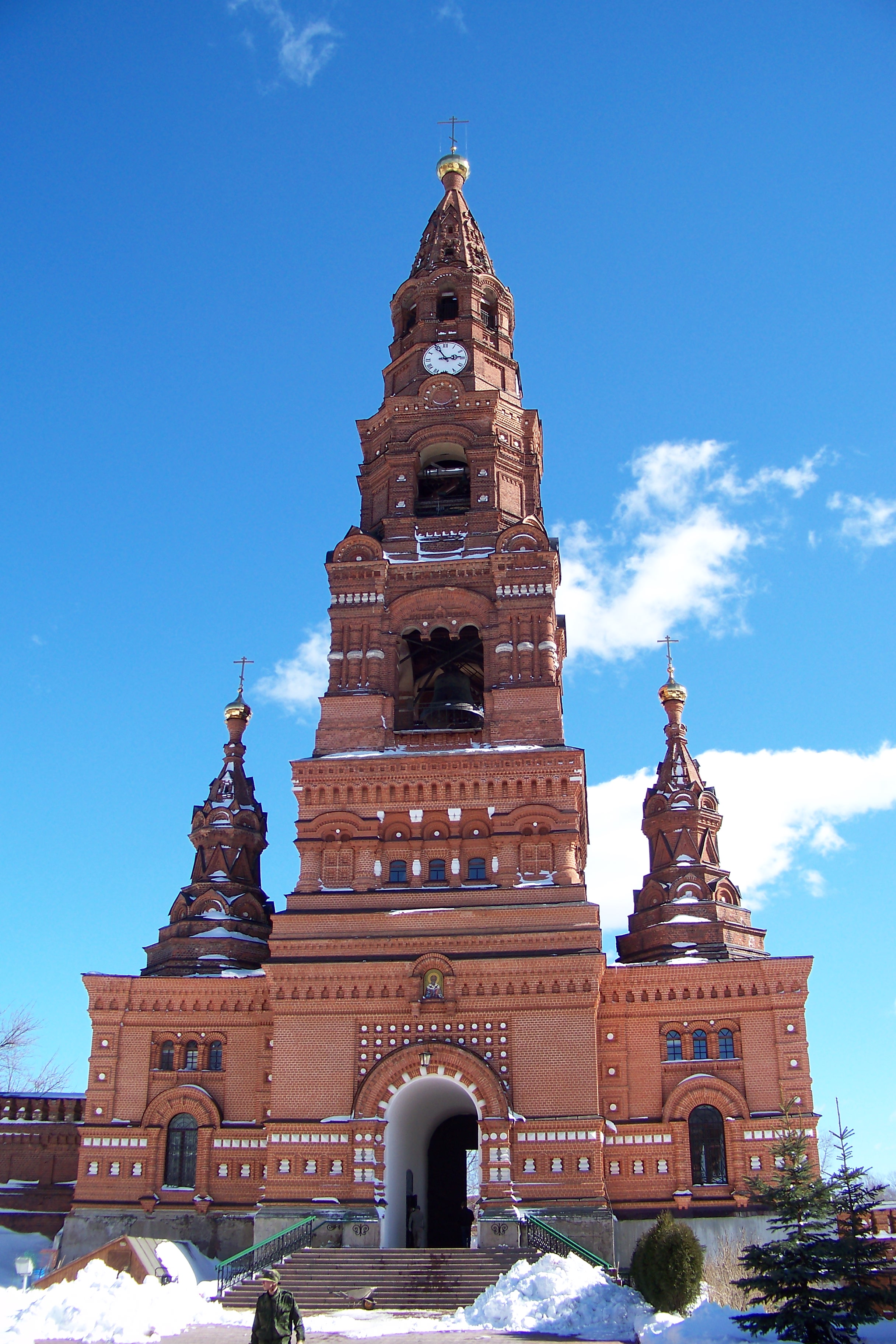 The belfry at the Chernigovsky Skete in Sergiev Posad.